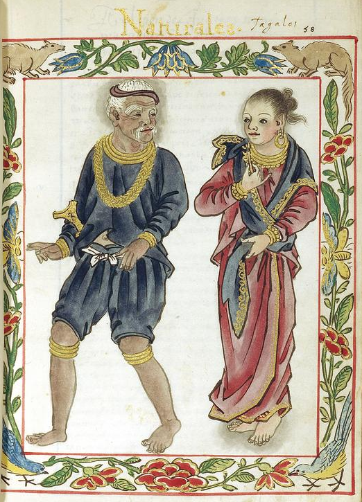 Depiction of a pre-colonial noble Filipino couple in the Boxer Codex.